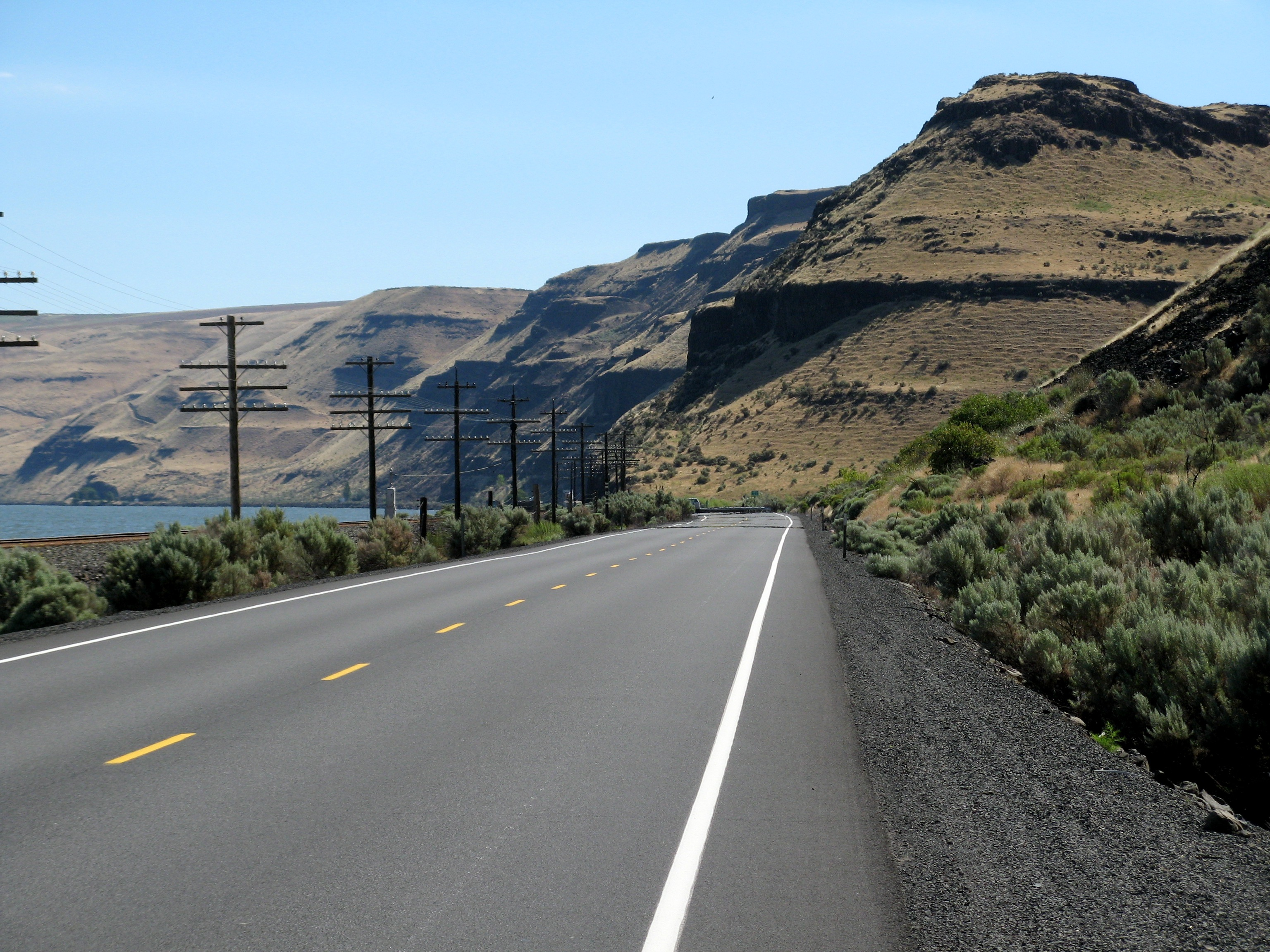 U.S. Route 730 eastbound approaching the Oregon-Washington border along Lake Wallula near Wallula, Washington.